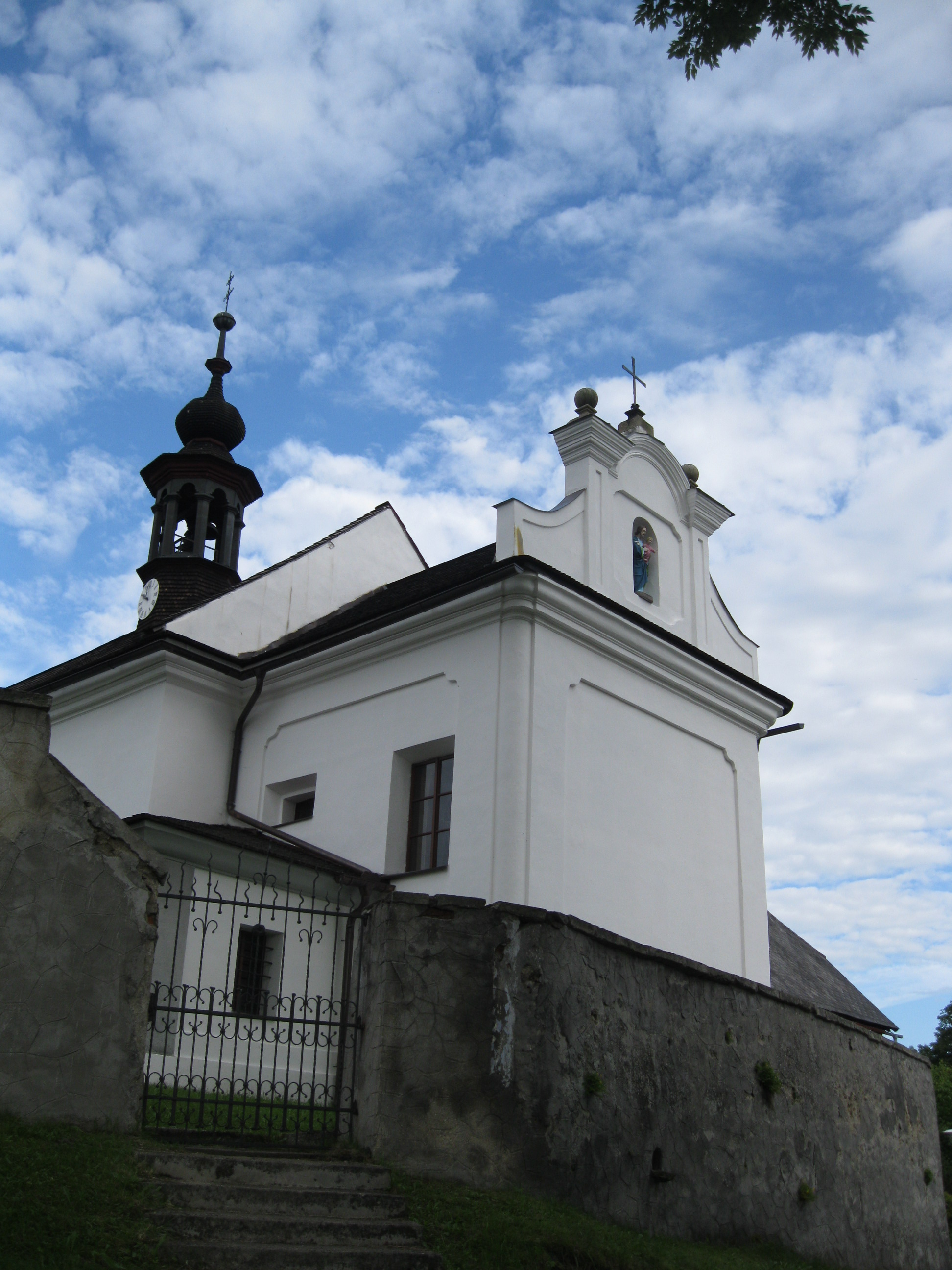 Kostel v Horní Vltavici